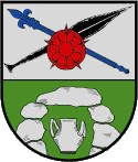 Coat of arms of Eulgem